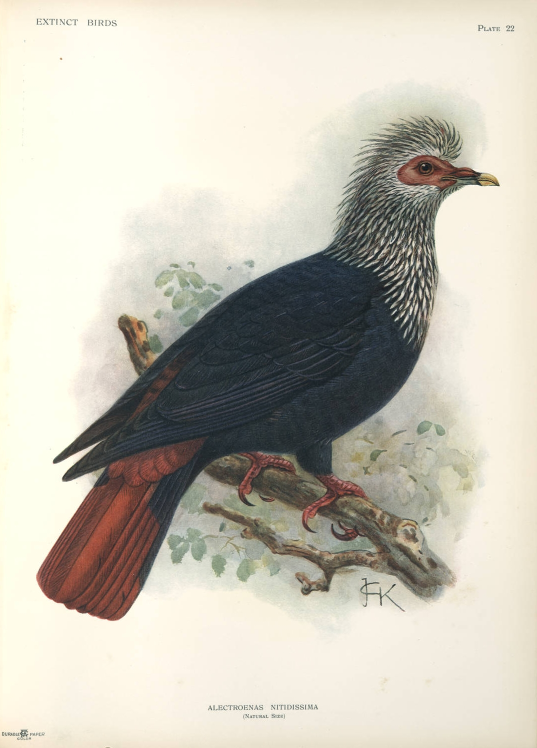 Alectroenas nitidissima Chromolithograph (37 x 27.5 cm)